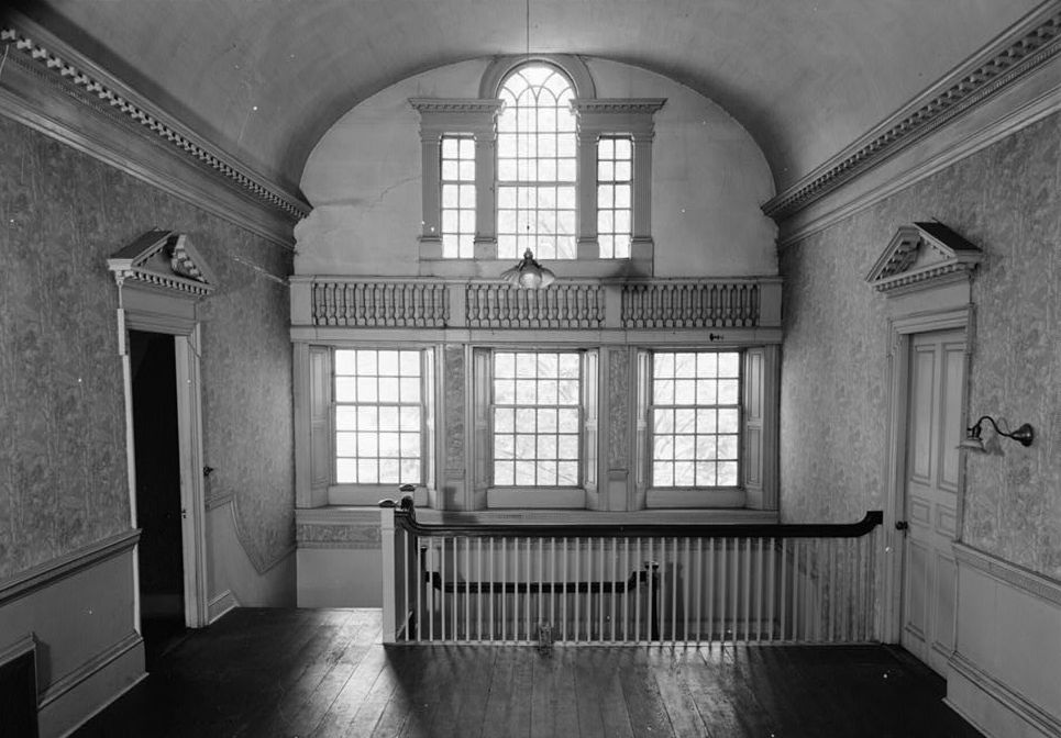 1790 House, Woburn. Interior view (taken in 1940) from the 2nd floor, looking towards rear of house.